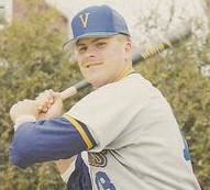 Professional baseball player Bill McGuire